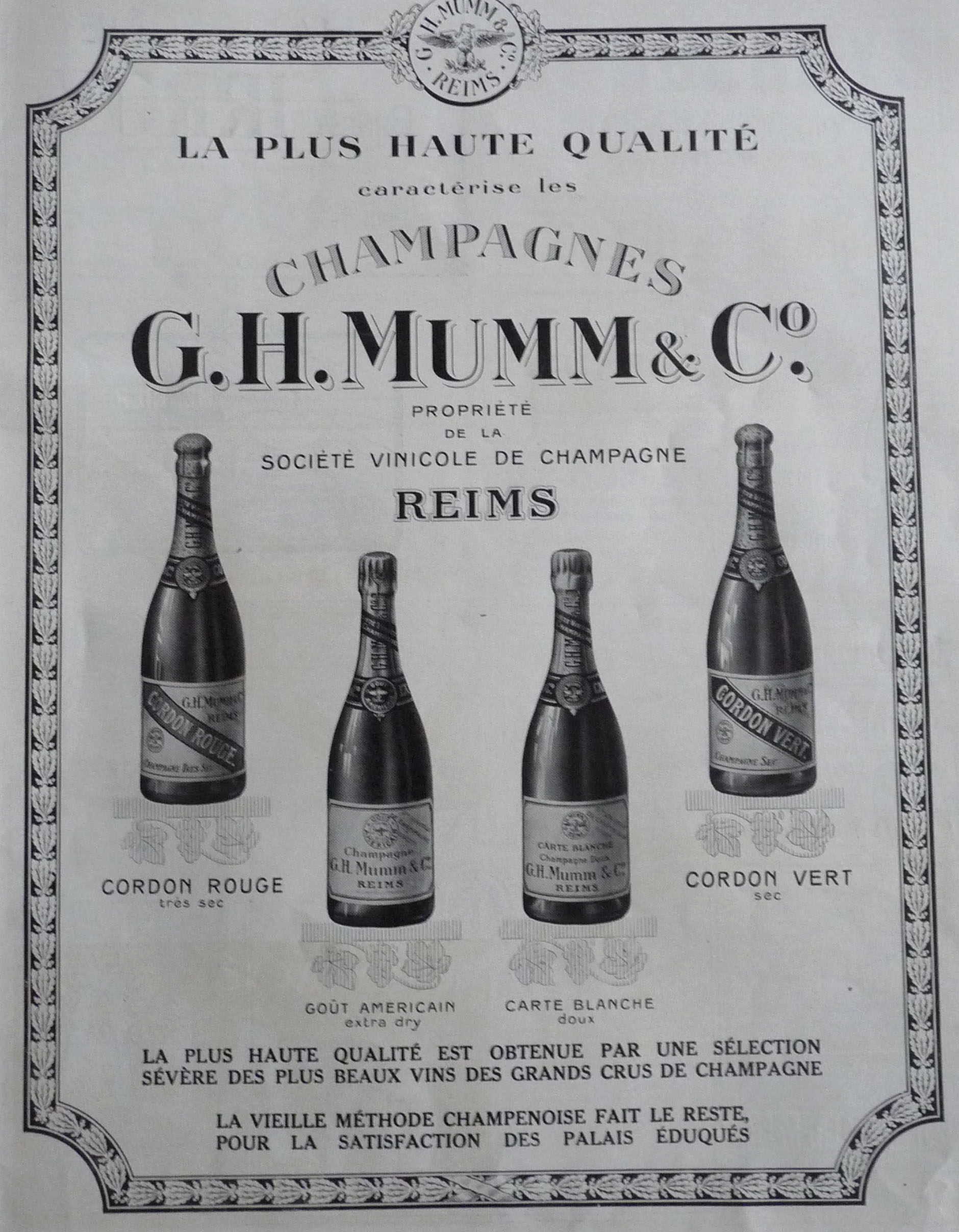 Mumm advertisement of 1923